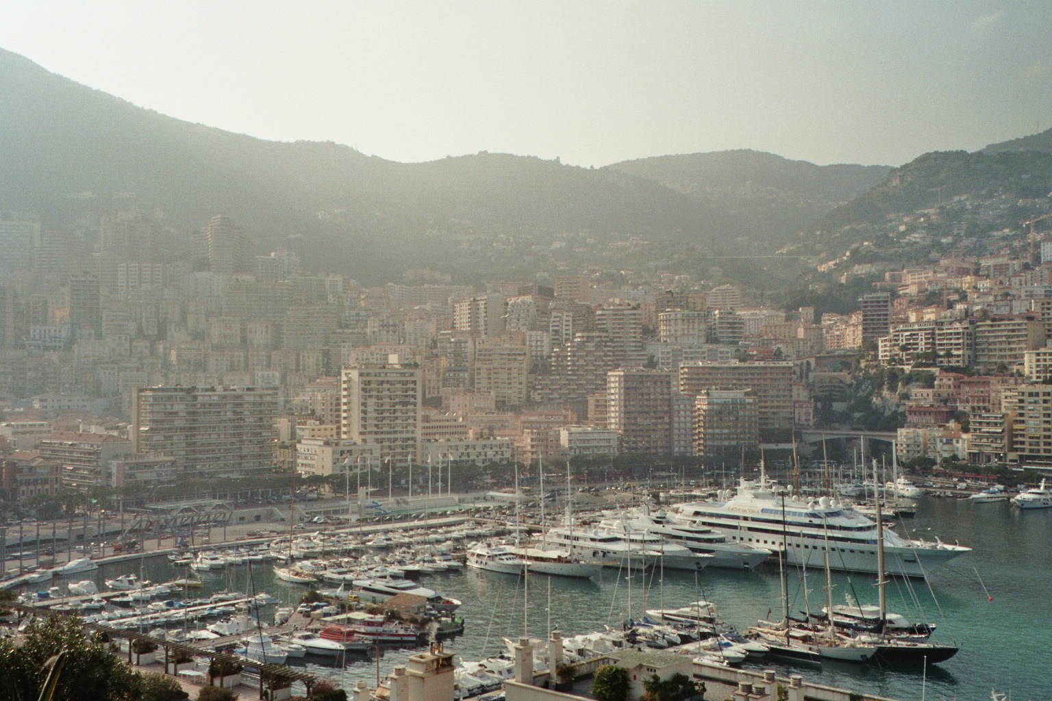 Monaco and harbor seen from the park in front of the sea-museum